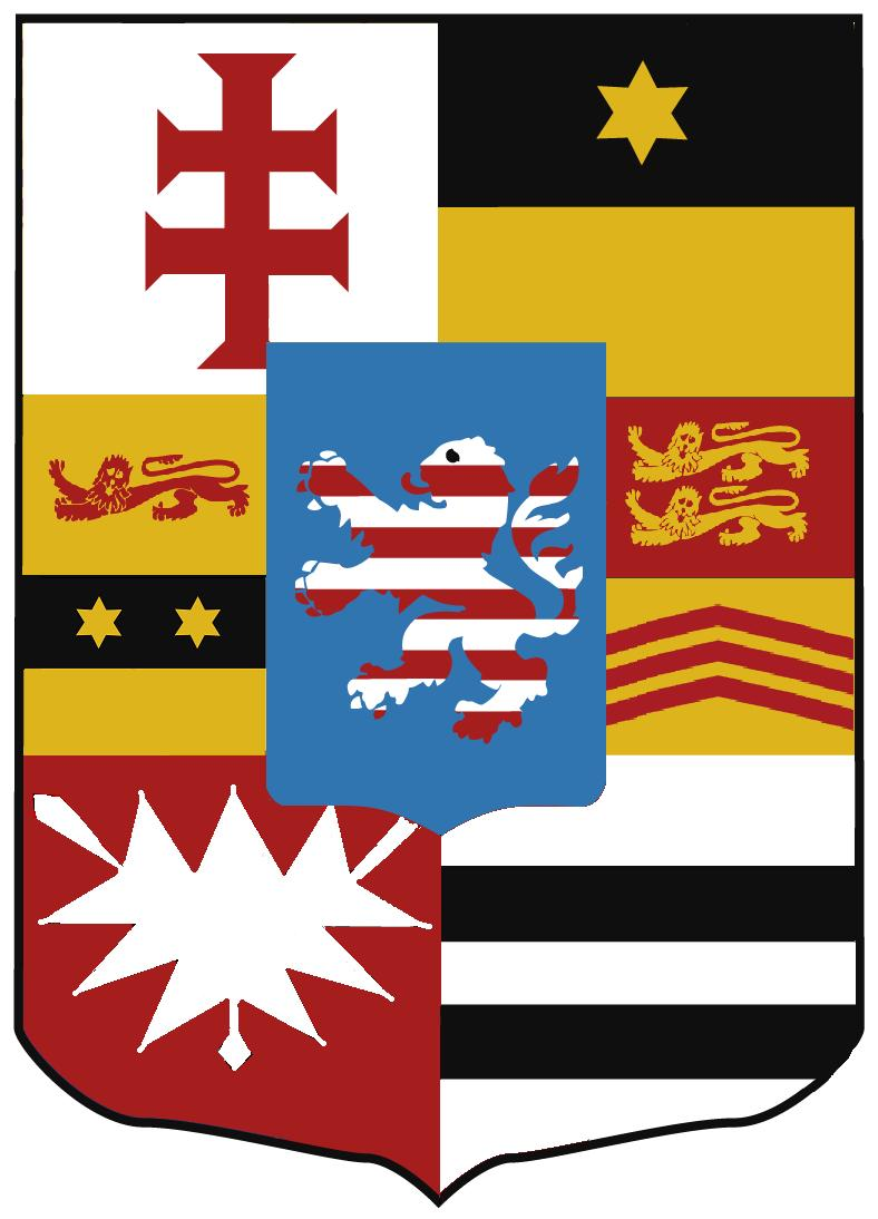 Coat of Arms of Hesse-Darmstadt in 1736